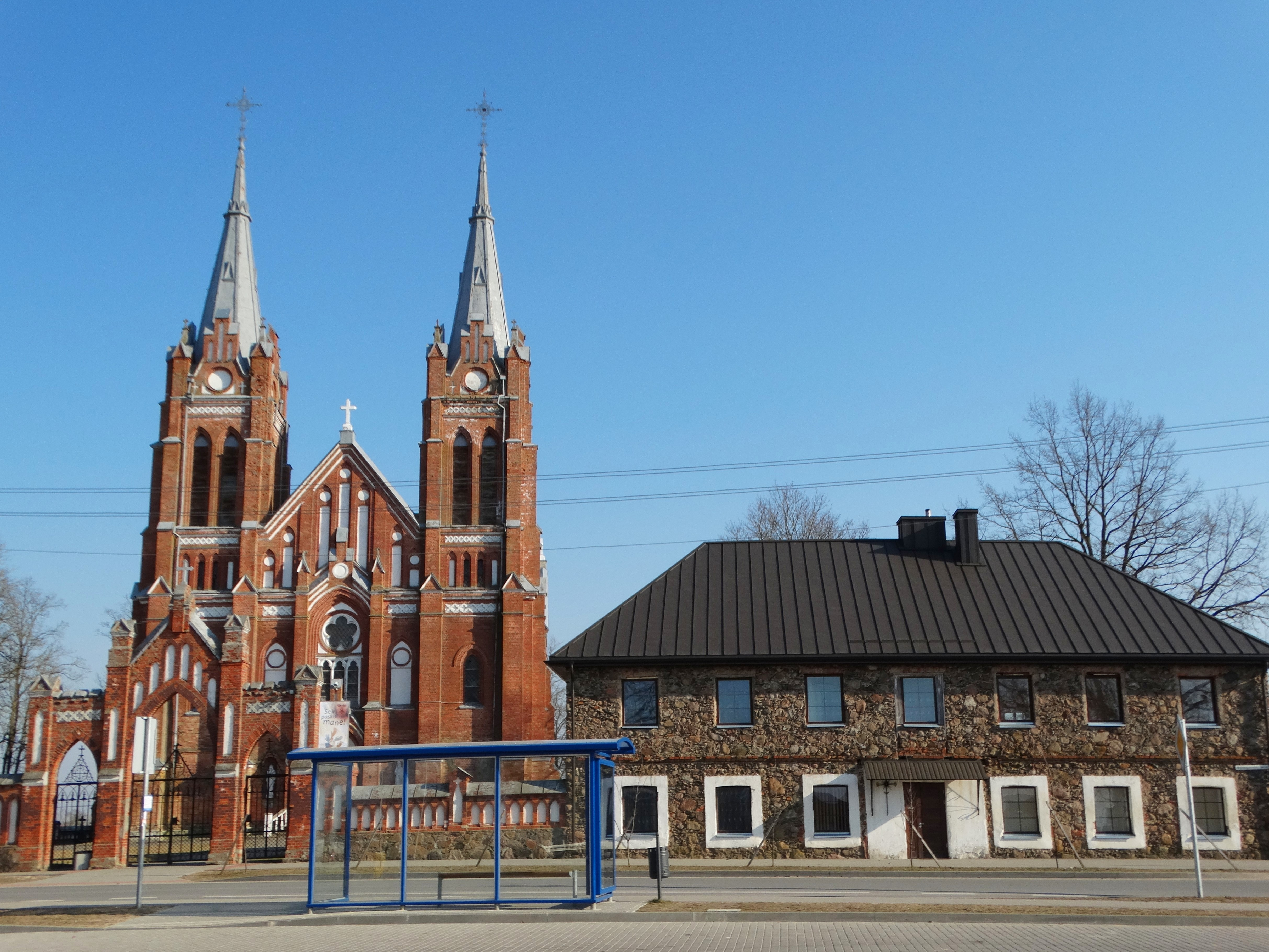 Holy Trinity Church, Gruzdžiai, Šiauliai district, Lithuania